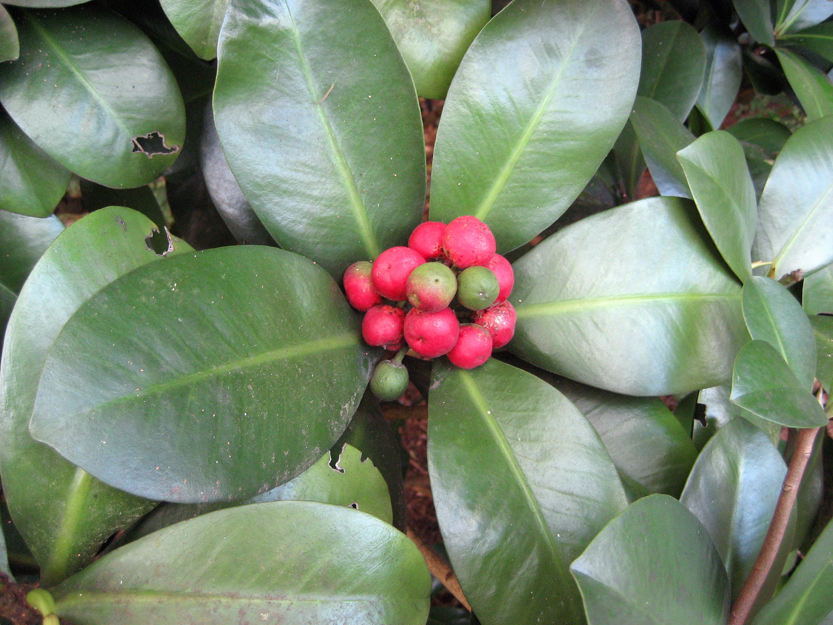 Foliage and fruit of Elingamita johnsonii, the sole species in the genus Elingamita, endemic to the Three Kings Islands, northern New Zealand. The attractive grape-like bunches of red fruit take a year or more to ripen. Each fruit is a globe-shaped drupe up to 20 mm in diameter enclosing a single seed.